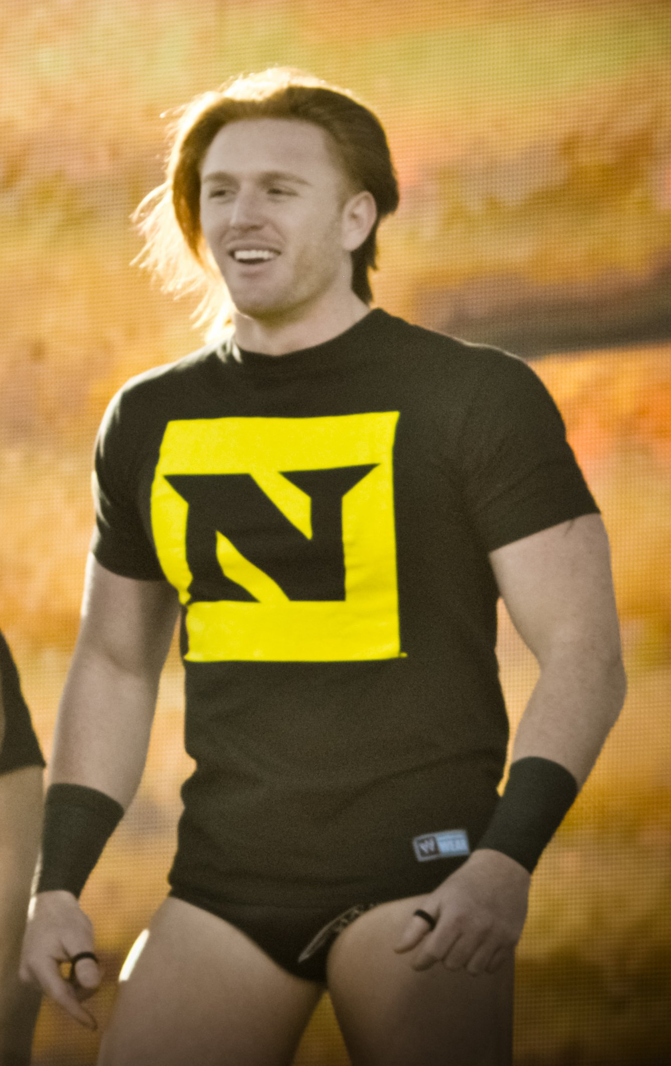 WWE superstar Heath Slater at WWE's 2010 Tribute to the Troops show in Fort Hood, Texas, in December 2010.